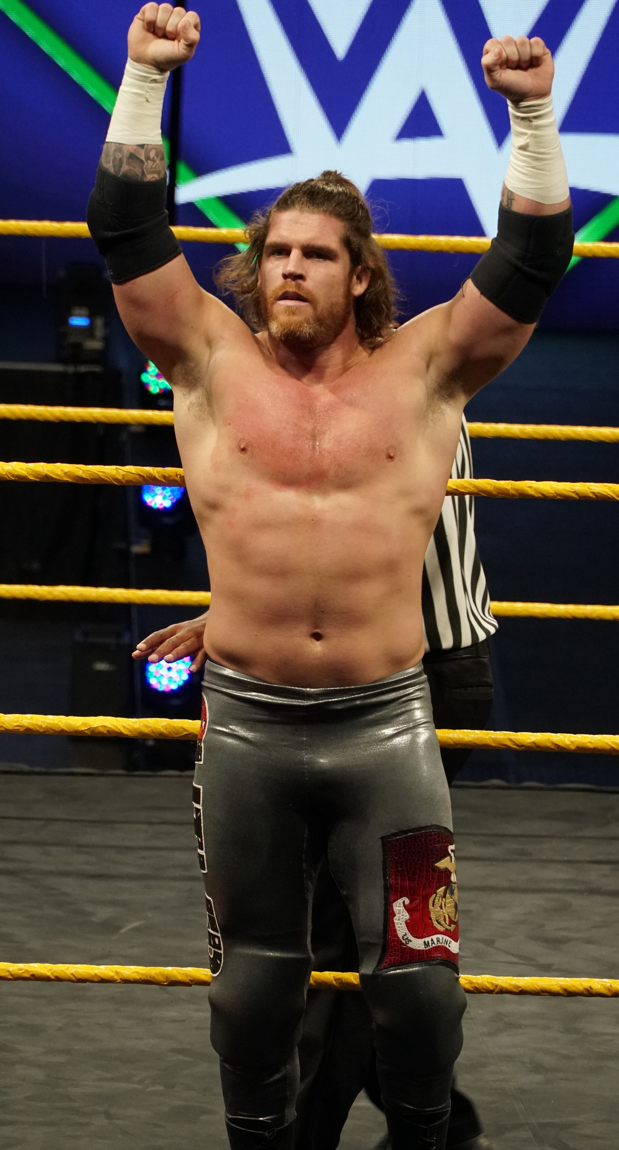 NOLA 2018 - WWE Axxess - Saturday - Nick Miller & Shane Thorne Vs Steve Cutler & Wesley Blake Nick Miller & Shane Thorne def. Steve Cutler & Wesley Blake ( Deux semaines a Nola pour la ville et pour WWE Wrestlemania XXXIV Two weeks Nola for the city and for WWE Wrestlemania XXXIV )